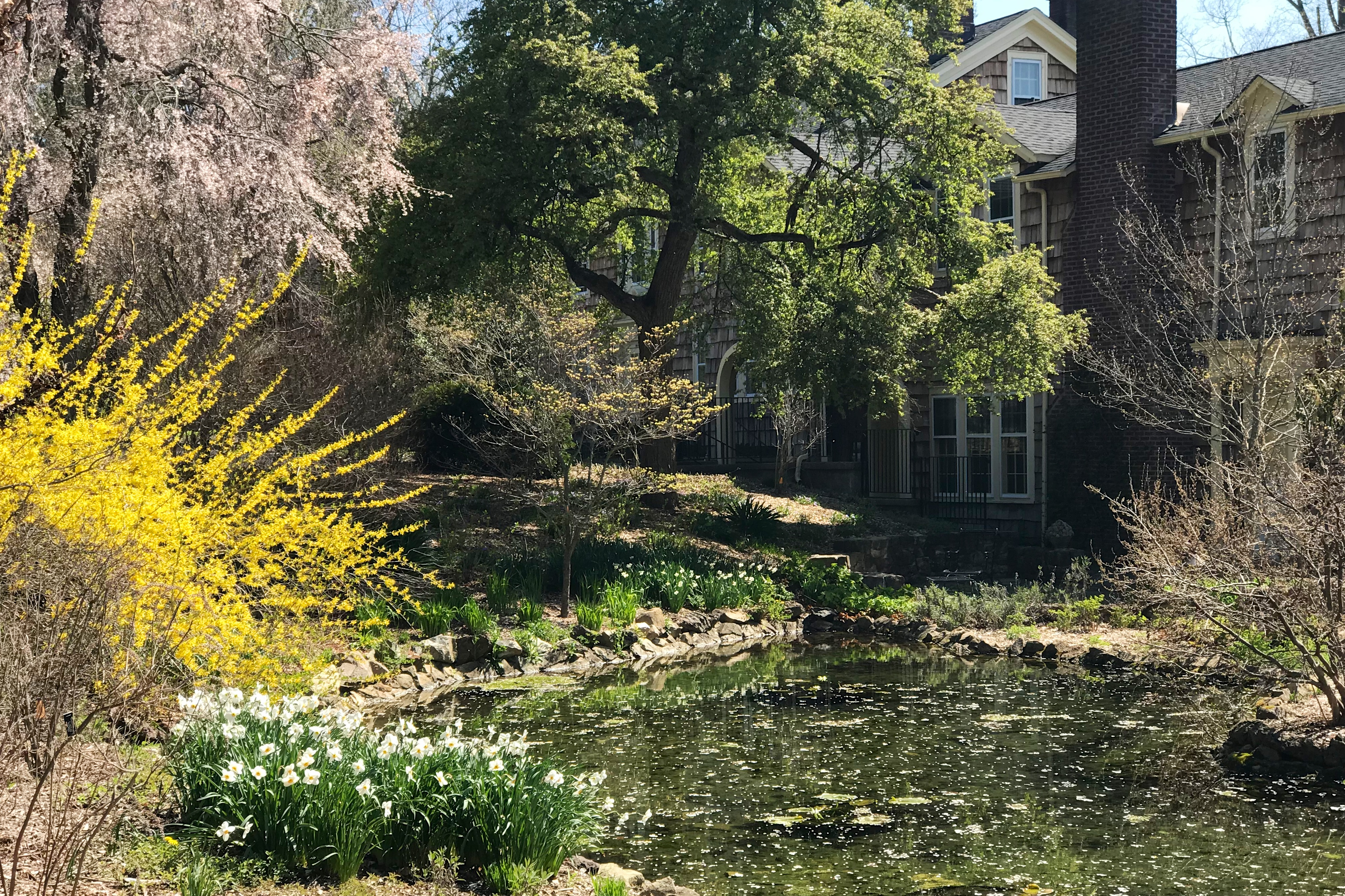 Daffodils, bushes and trees in bloom by the Upper Water pool near the Hutcheson House at the Bamboo Brook Outdoor Education Center in Chester Township, New Jersey.